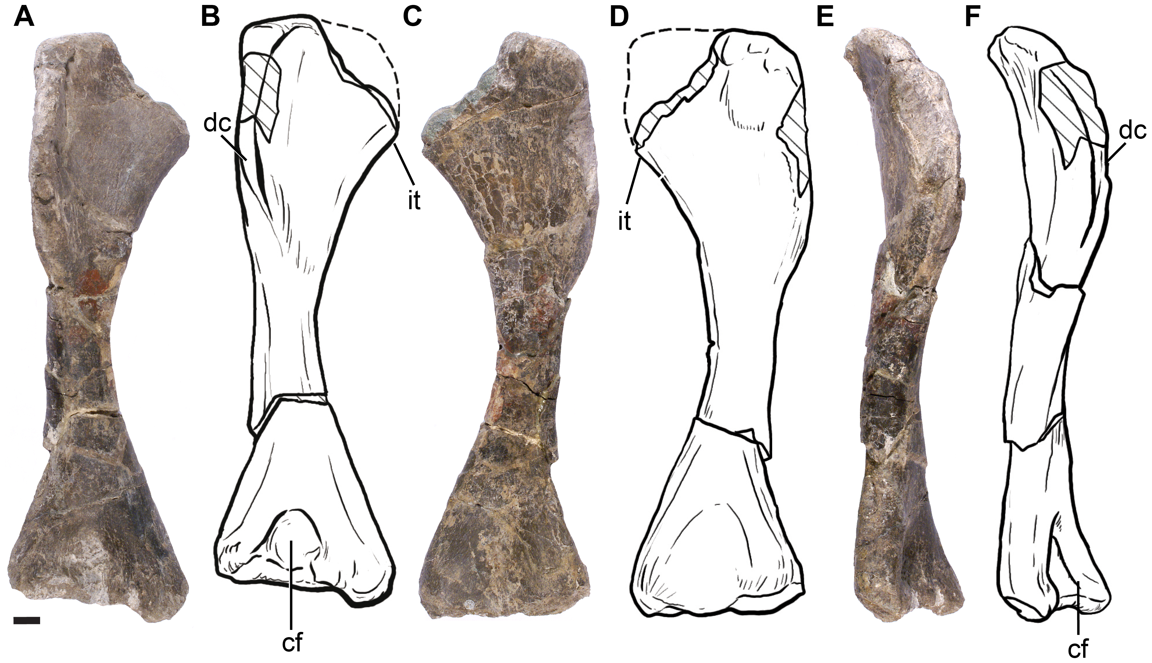 Right humerus of Leonerasaurus taquetrensis (MPEF-PV 1663). A–B, anterior view. C–D, posterior view. E–F, lateral view. Scale bar represents 10 mm. Hatched pattern represents broken surfaces. Abbreviations: cf, cuboid fossa; dc, deltopectoral crest; it, internal tuberosity.